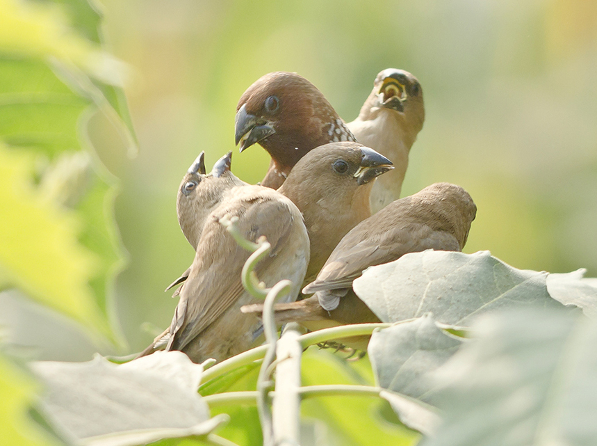 at junagadh